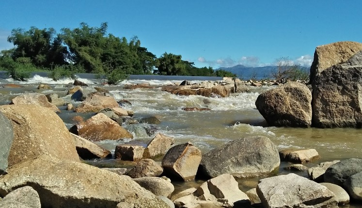 Đập Nha Trinh 1